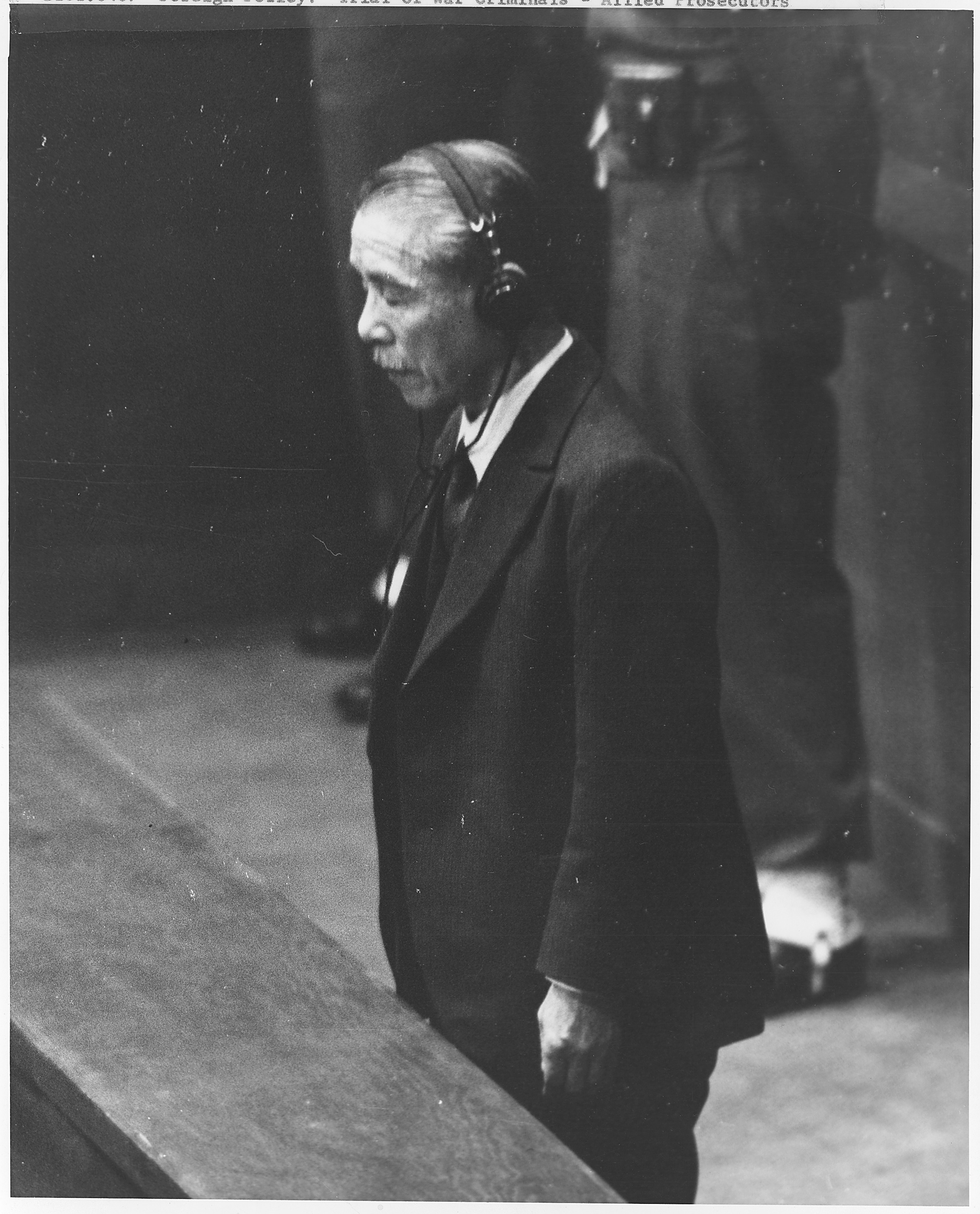 Scope and content: Koki Hirota listens to death sentence read by Sir William Webb (Australia) (not shown), President of the International Military Tribunal for the Far East. Hirota, age 70, was Prime Minister from March 1936, to February 1937 and Foreign Minister under Saito, Okada and Konoye. November 12, 1948.